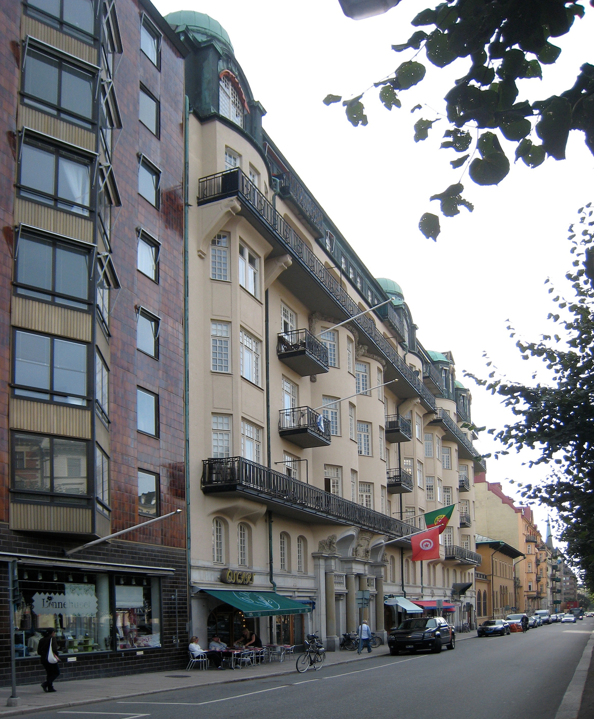 Narvavägen 30-32 (architecs Hagström & Ekman 1905). Home to Restaurant Casis (ground floor) and the Portuguese Embassy, Argentinian embassy and Tunisian Embassy in Stockholm..